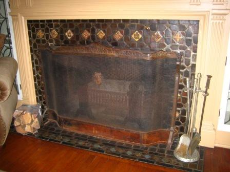 Harry N. Burhans House, 2627 E. Genesee St., Syracuse, New York. Fireplace.